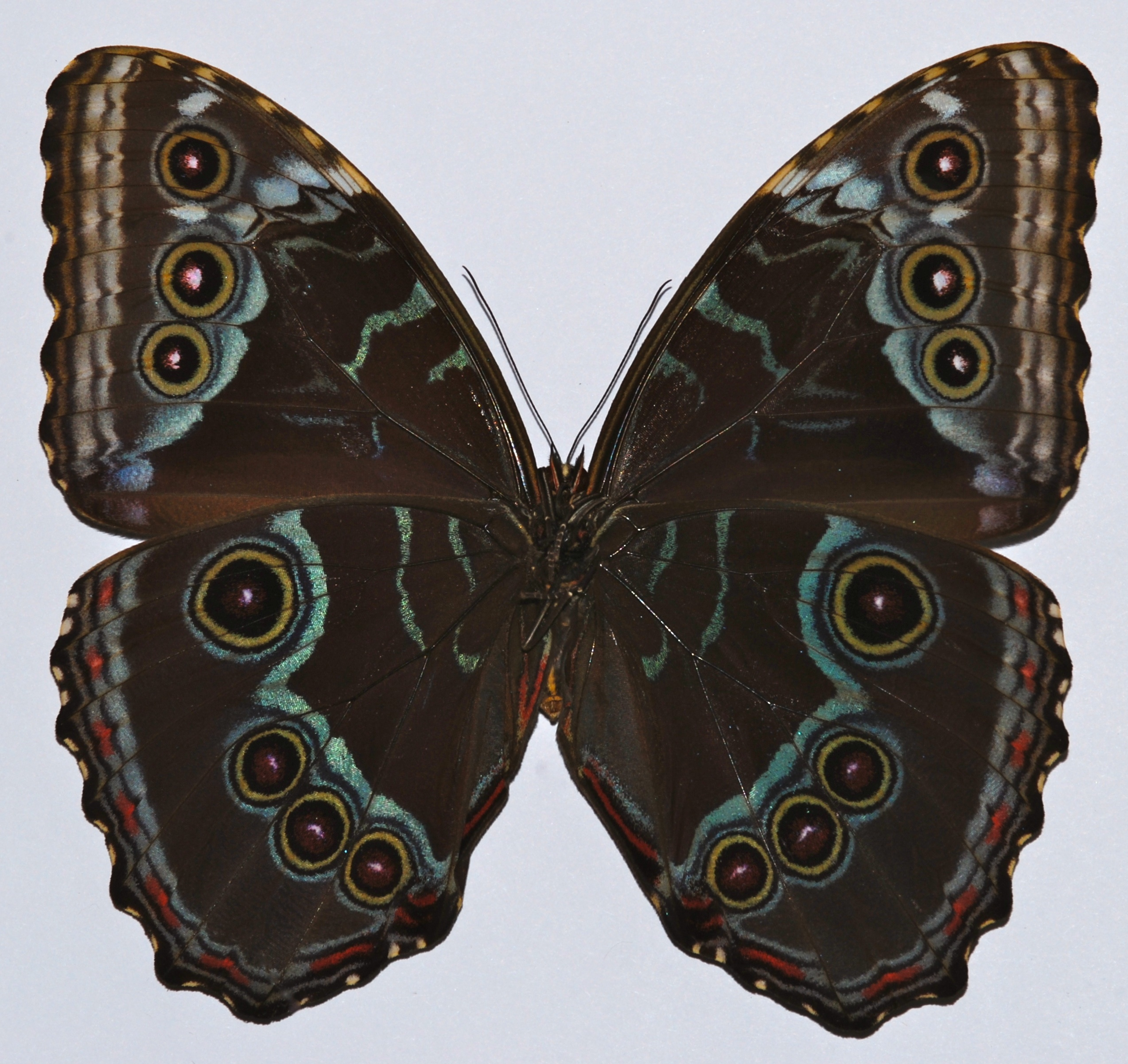 Otanche, Boyaca, COLOMBIA